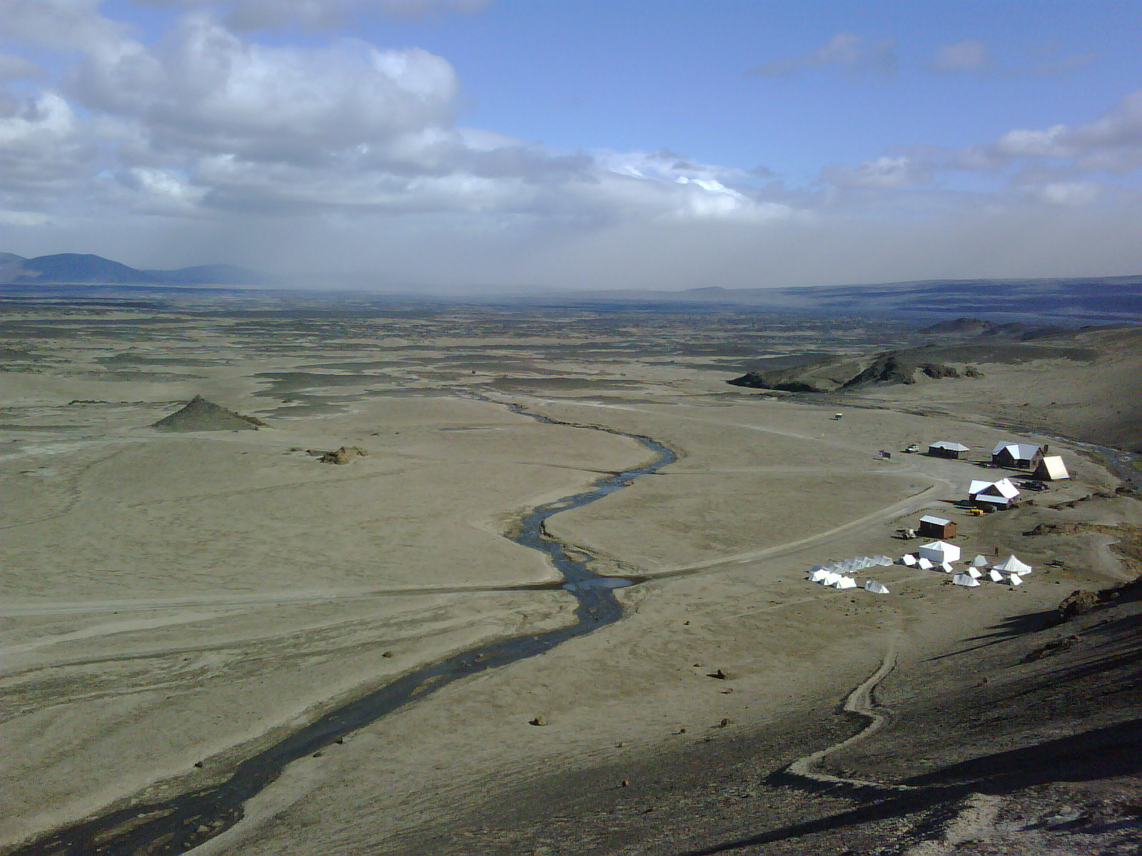 Ódáðahraun seen from the Askja